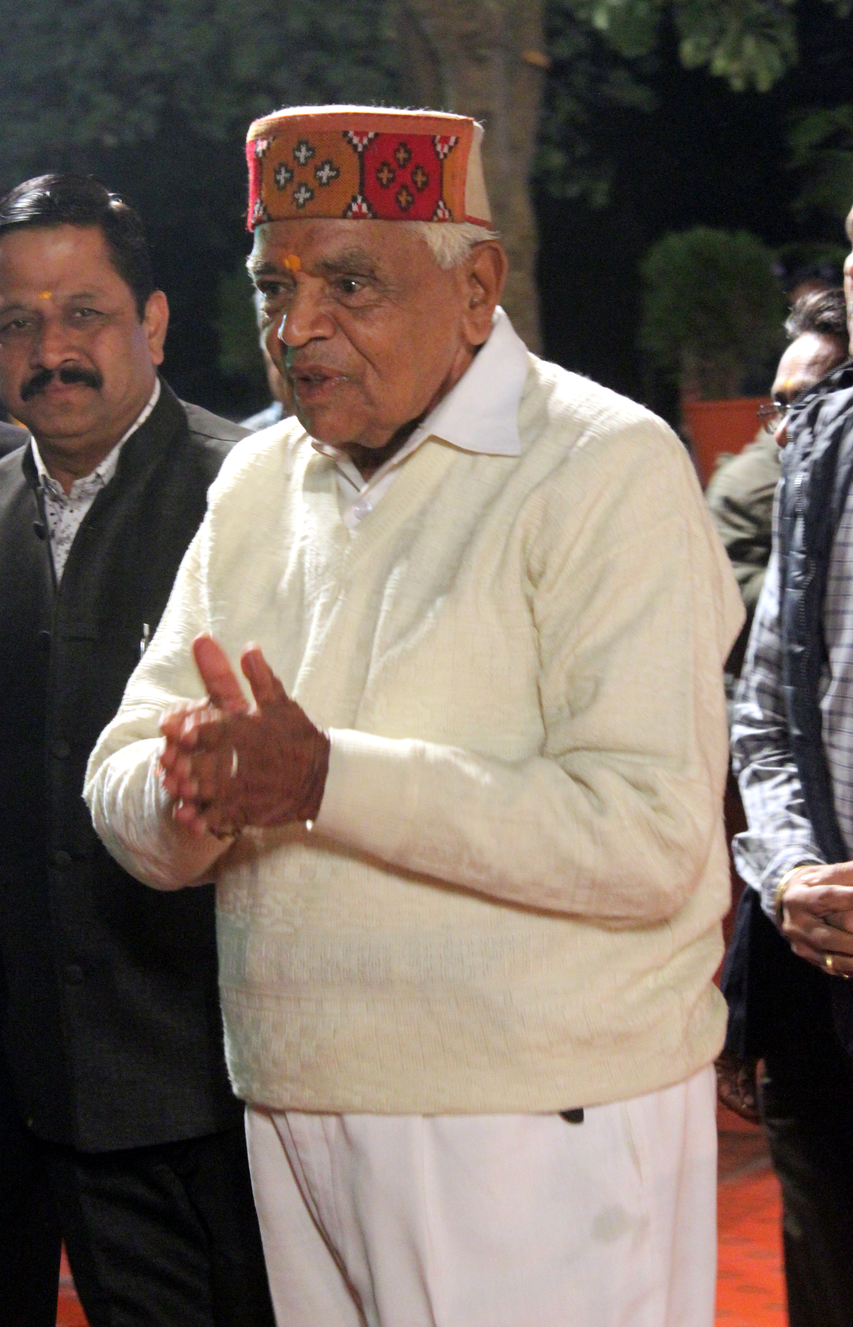 Babulal Gaur, Ex-Chief minister of Madhya Pradesh, India